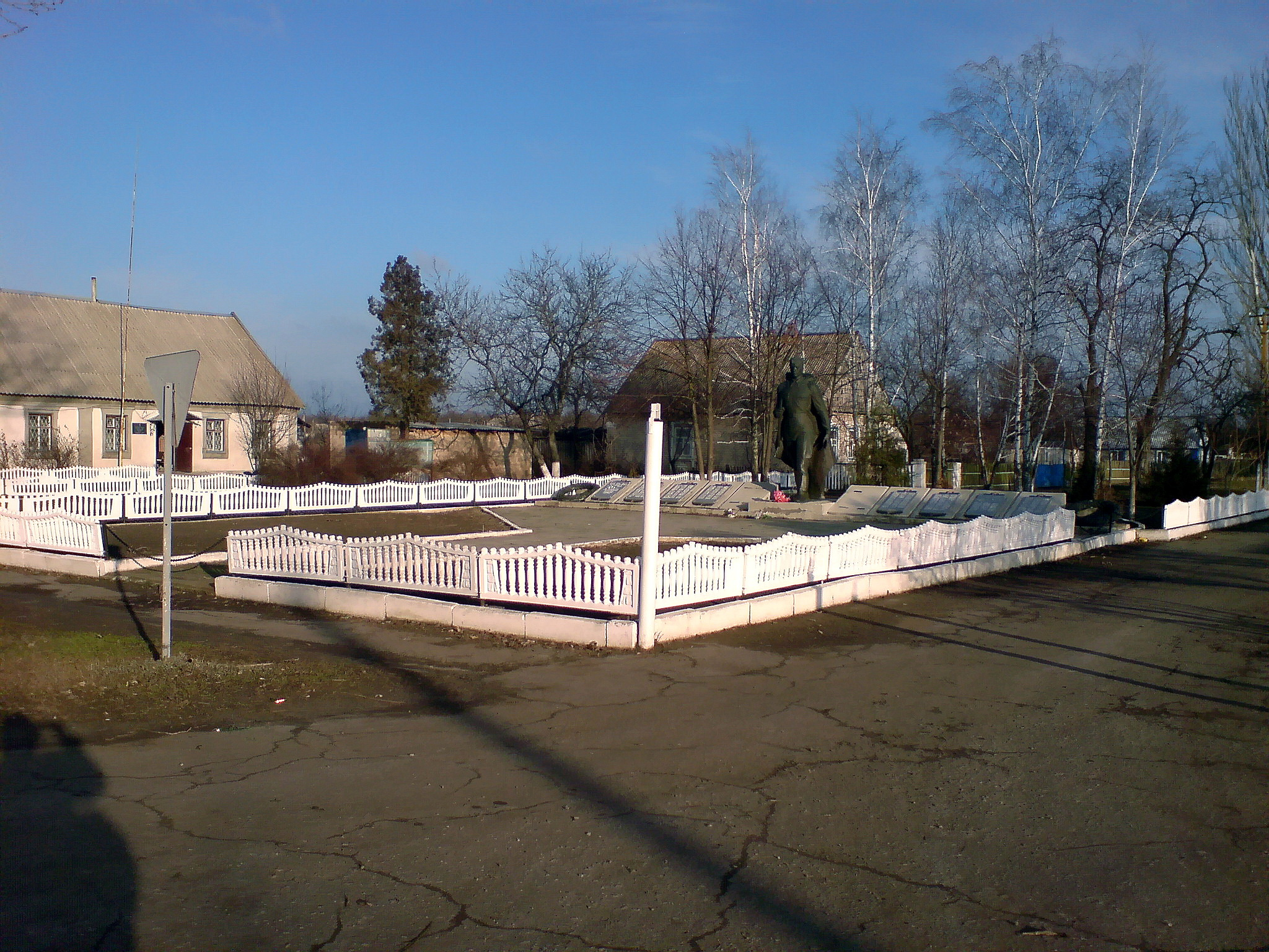 The bed of honour in the village Svetlodolinskoie, Melitopol Raion, Ukraine